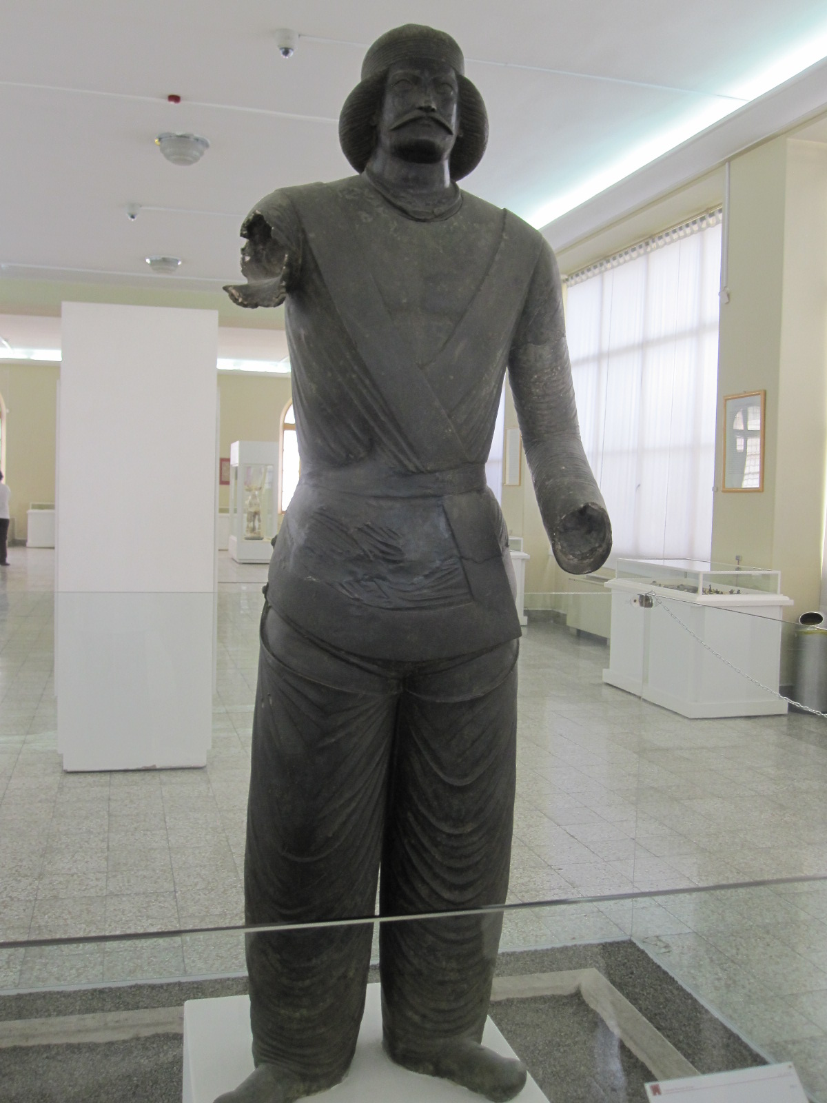 Parthian bronze statue, National Museum of Iran 2401